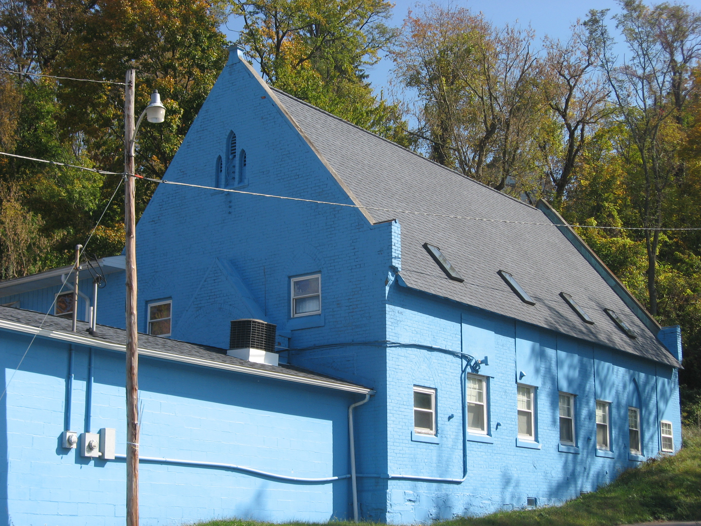 Front and southern side of the former St. John's Lutheran Church, located on the southern side of Avery Street between 9th and 9½th Streets in Parkersburg, West Virginia, United States. Built in 1907, it is part of the Avery Street Historic District, a historic district that is listed on the National Register of Historic Places.